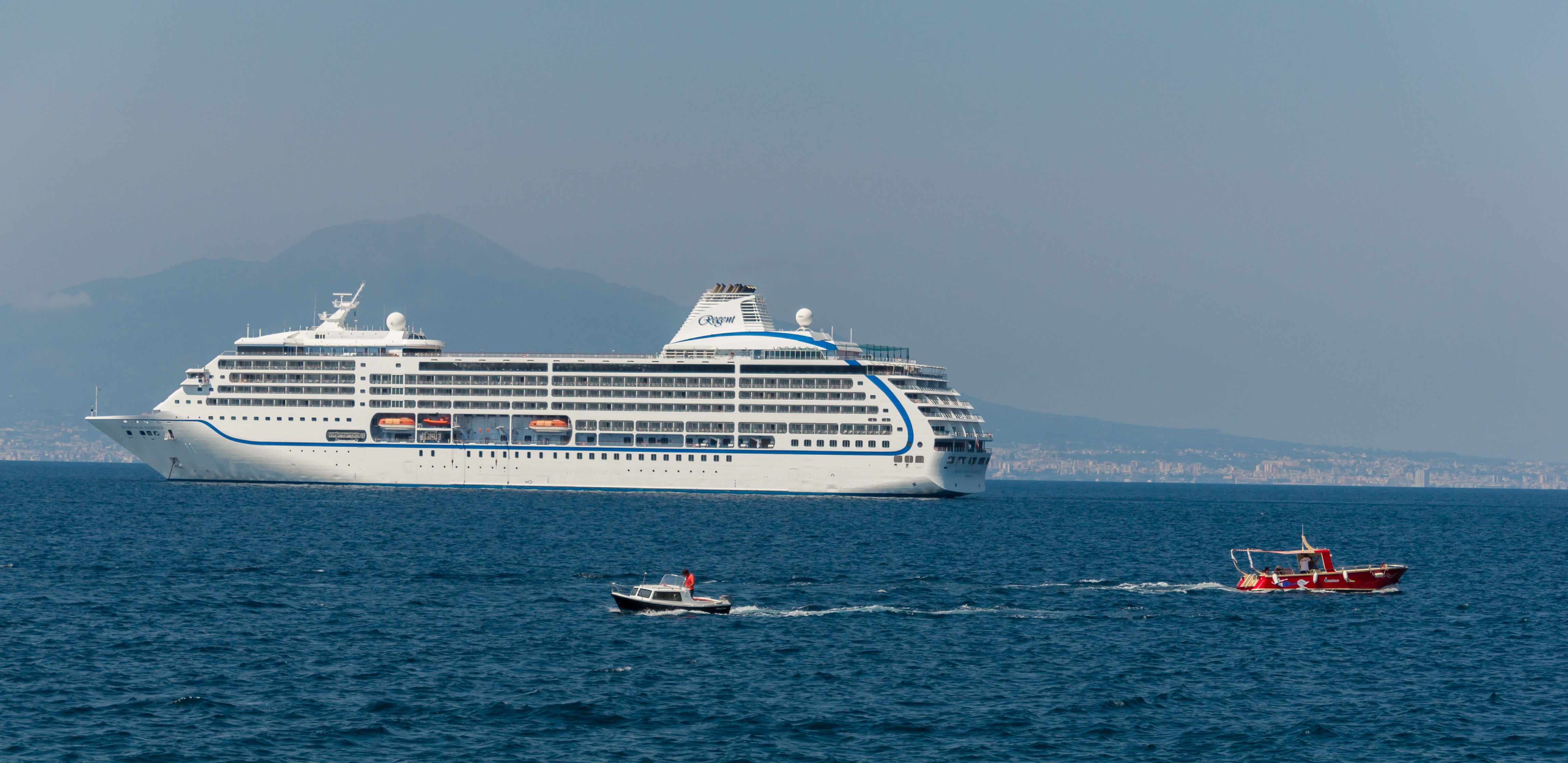 the Seven Seas Mariner, and two little friends in the gulf of Naples. Mount Vesuvius in background.